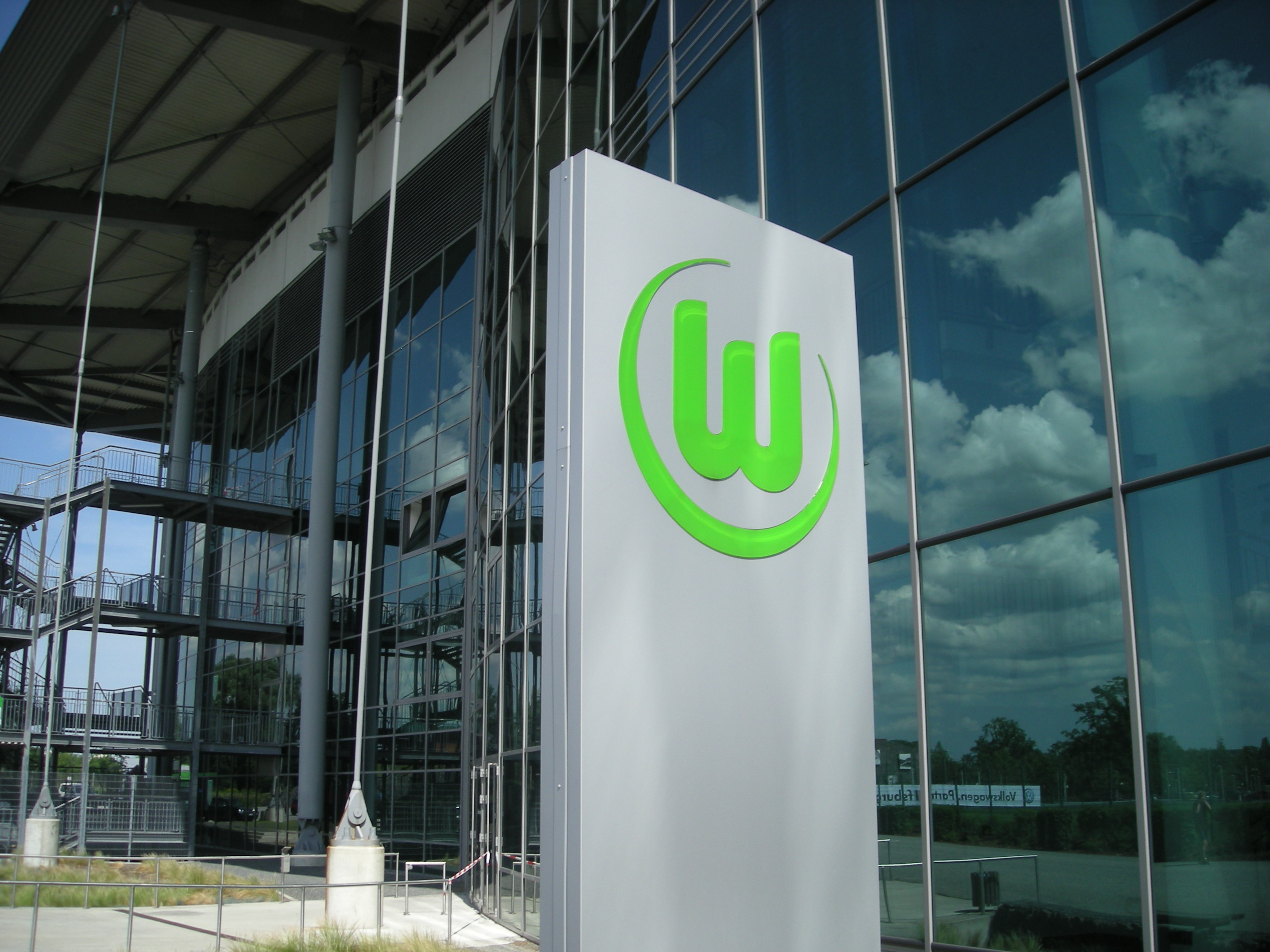 The exterior of Volkswagen Arena in Wolfsburg, Niedersachsen (Germany).